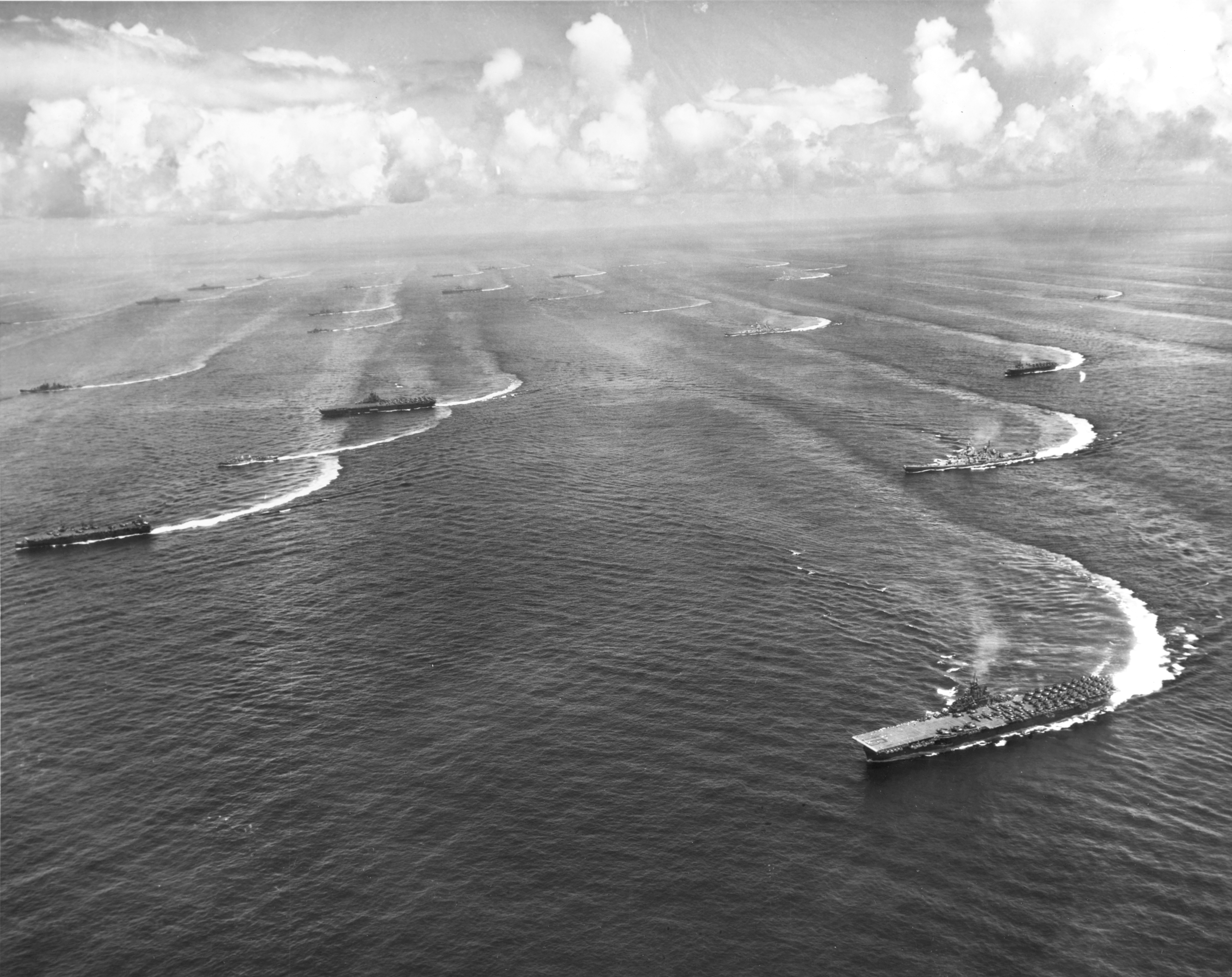 The U.S. Navy Task Force 38, of the U.S. Third Fleet maneuvering off the coast of Japan, 17 August 1945, two days after Japan agreed to surrender. The aircraft carrier in lower right is USS Wasp (CV-18). Note that her forward hull number on the flight deck is painted to be readable for planes coming from the bow. This was discontinued as escort carriers with such high numbers, like in this case USS Rudyerd Bay (CVE-81), were commissioned. The other identifiable carrier is USS Shangri-La (CV-38) in the left center. She is the only known carrier to have her air group identification letter ("Z") painted in white on her flight deck, instead of her hull number. Also present in the formation are four other Essex-class carriers, four Independence-class light carriers, at least three battleships, two of the Iowa-class and one of the South Dakota-class, plus several cruisers and destroyers.